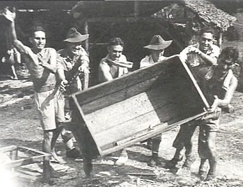 Australian War Memorial Caption: Kuching, Sarawak. c.1945-09-14. In this Prisoner of War (POW) camp the daily ration of boiled rice for 1200 men only half filled this pig trough which they used for mixing with sweet potato tops. Left to right: Driver Fred Baker, Bognor Regis, Sussex; 51866 Leading Aircraftman (LAC) Max England, Thornbury, Vic; Aircraftman 1 Harold Levy (RAF), London; 444828 LAC Ken Rawson, Croydon, NSW; Sergeant Jack Jackson, Leeds, England; 130060 LAC Alex O’Neill, Auburn, NSW; Private Pete Walters, Effingham, Surrey. The RAAF boys are helping the British boys throw away this trough.""